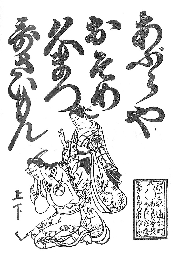 The songbook of utazaimon"Osome and Hisamatsu"(18-19th century)